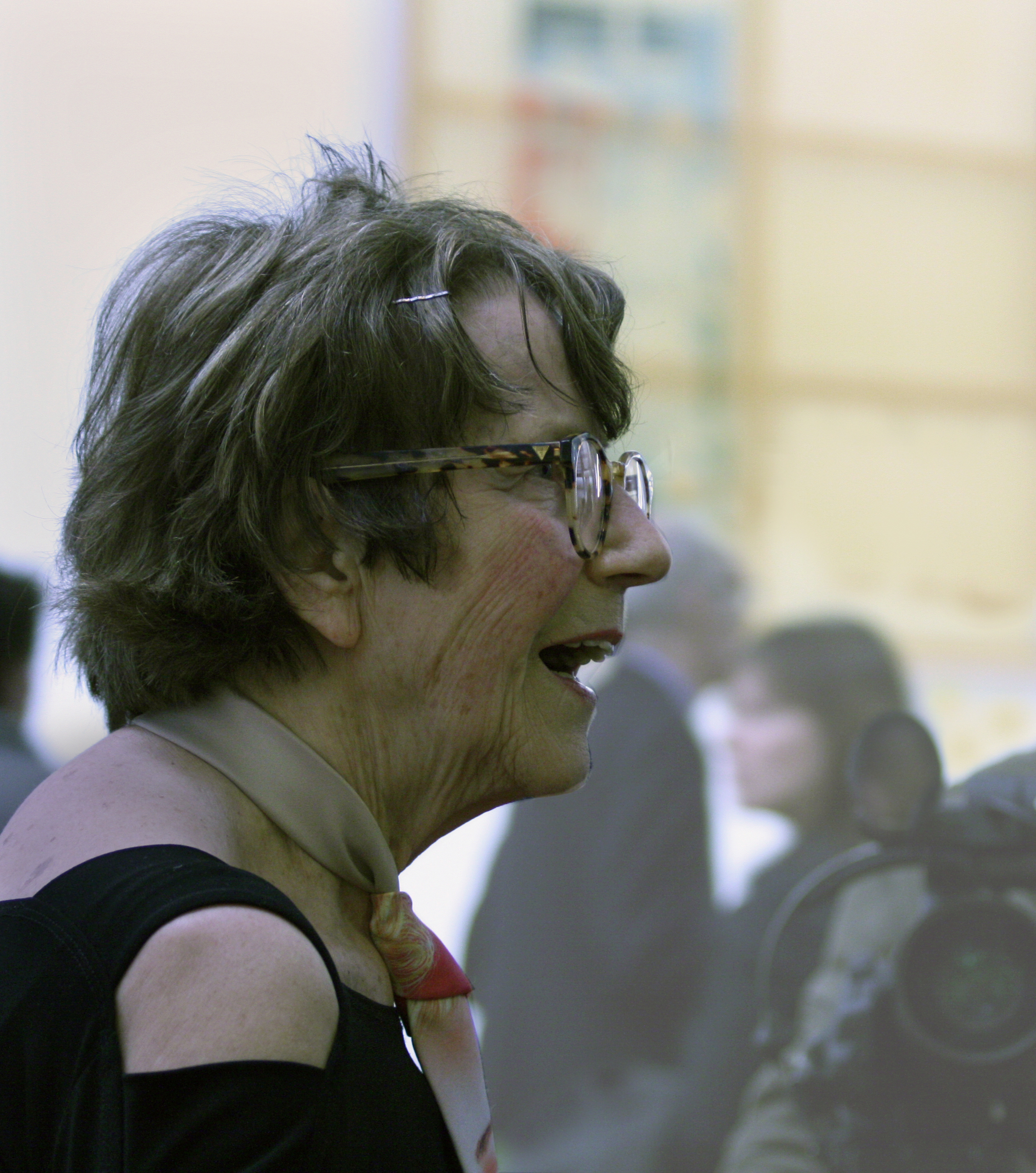 Maria Lassnig in Museum Ludwig, Cologne, Germany